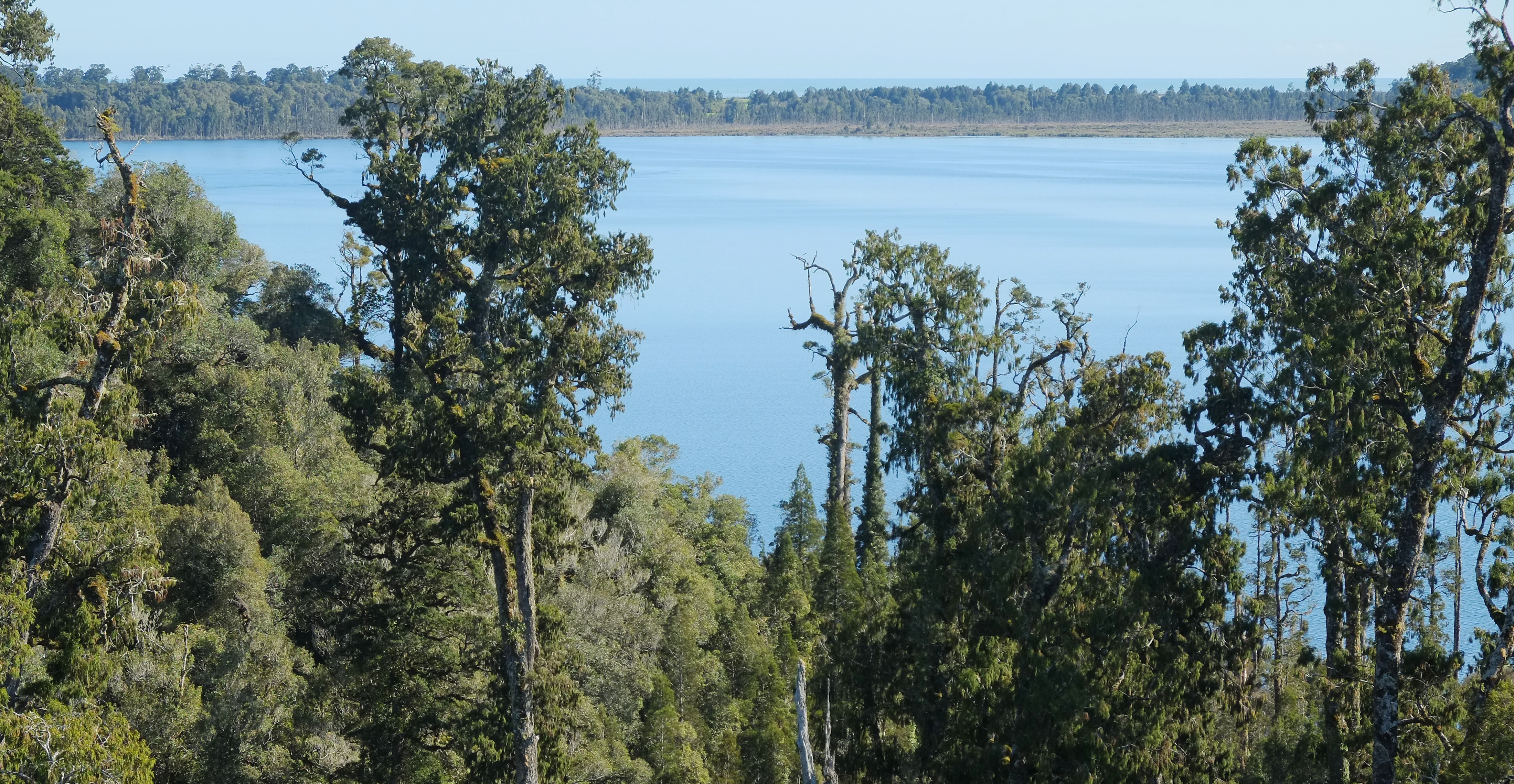 Lake Mahinapua from Treetop Walkway tower. The view is northwest towards the Tasman Sea, which is just visible behind the forest on the opposite shore.